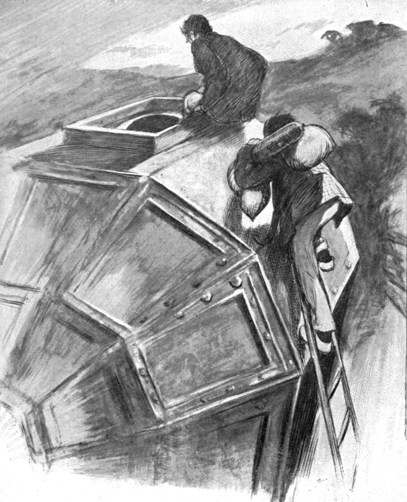 Illustration facing page 54 of H. G. Wells' The First Men in the Moon, 1st hardcover edition, published by George Newnes in 1901. Caption: "I sat across the edge of the manhole and looked down into the black interior"